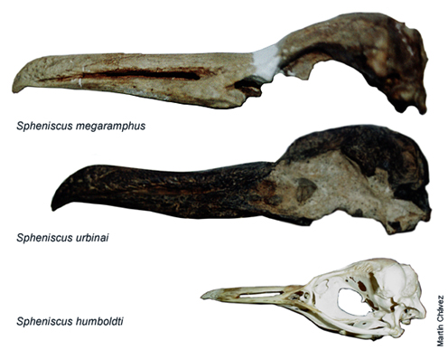 Skulls of paleospecies of Spheniscus, Spheniscus megaramphus, Spheniscus urbinai, & Spheniscus humboldti